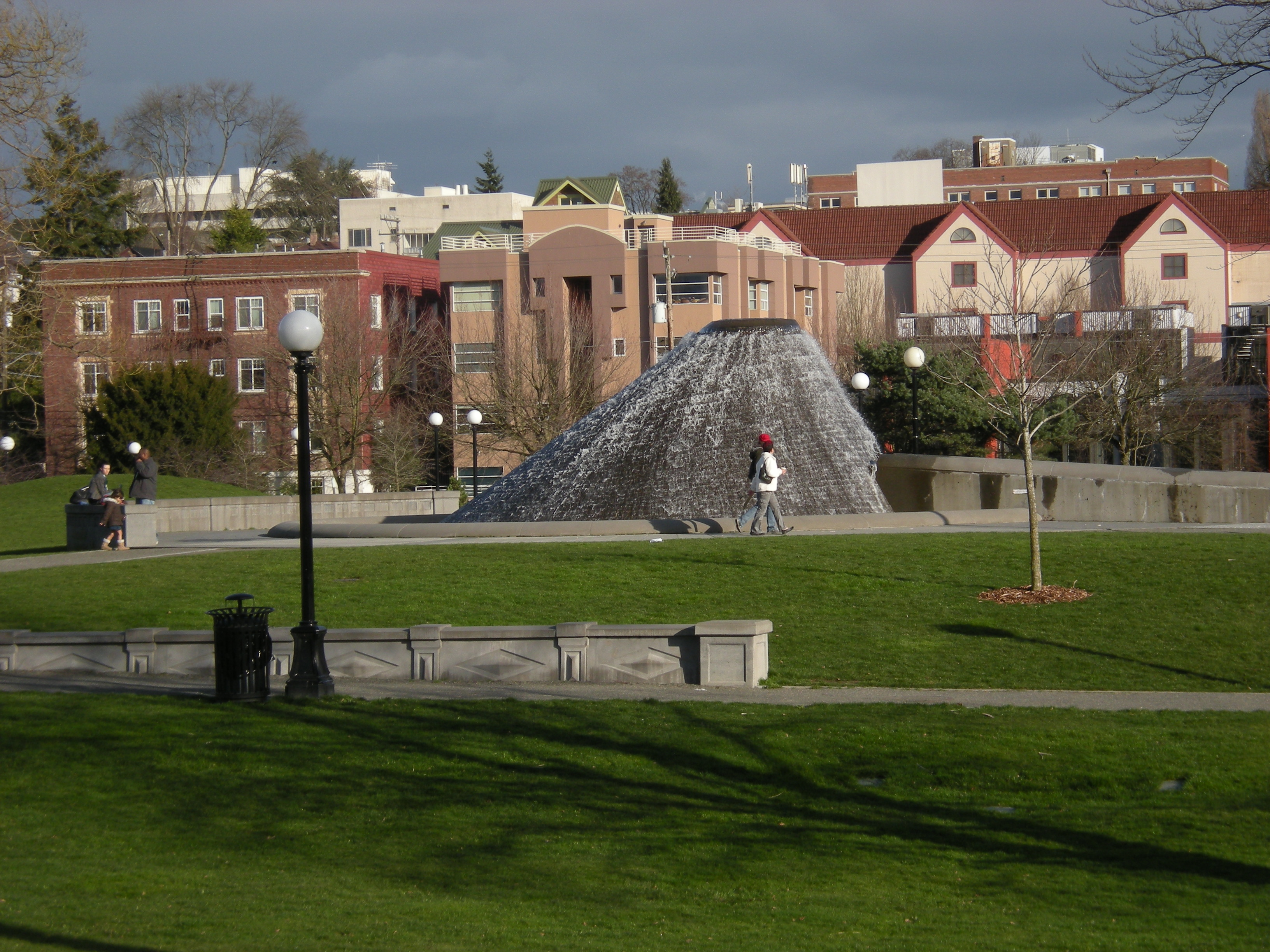 Cal Anderson Park, Capitol Hill, Seattle, Washington.